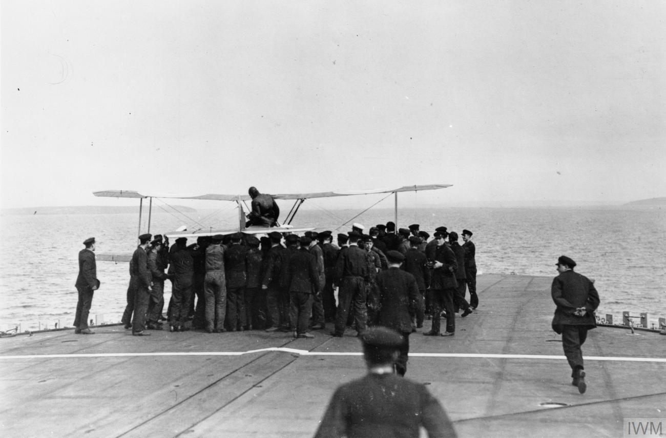 IWM caption : Squadron Commander E H Dunning climbs out of his aircraft on the flying-off deck of HMS FURIOUS after the first successful landing on an aircraft carrier underway.